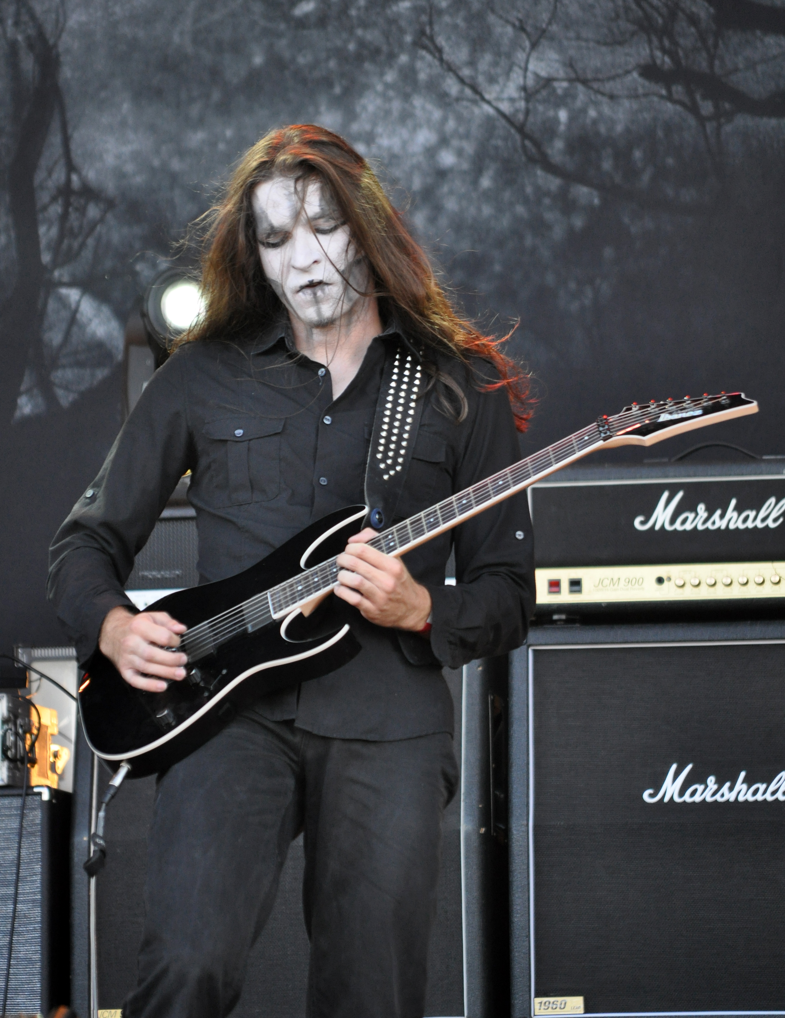 Dark Fortress at Party.San Open Air 2012